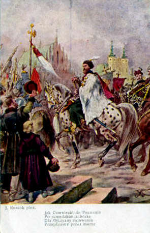 Post card from Juliusz Kossak's Pieśń Legionów ("Legions' Song") series, illustration of the second stanza